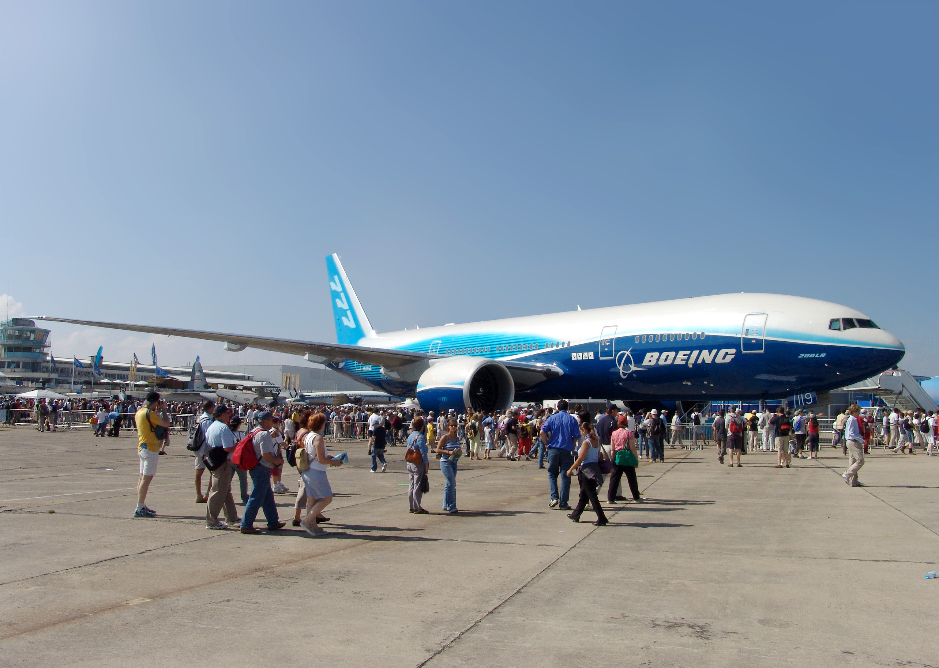 Boeing 777-200LR in Paris Air Show 2005 Le Boeing 777-200LR au Salon du Bourget 2005